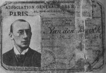 Student certificate of Dutch physicist Antonius van den Broek (1870-1926) at Paris University